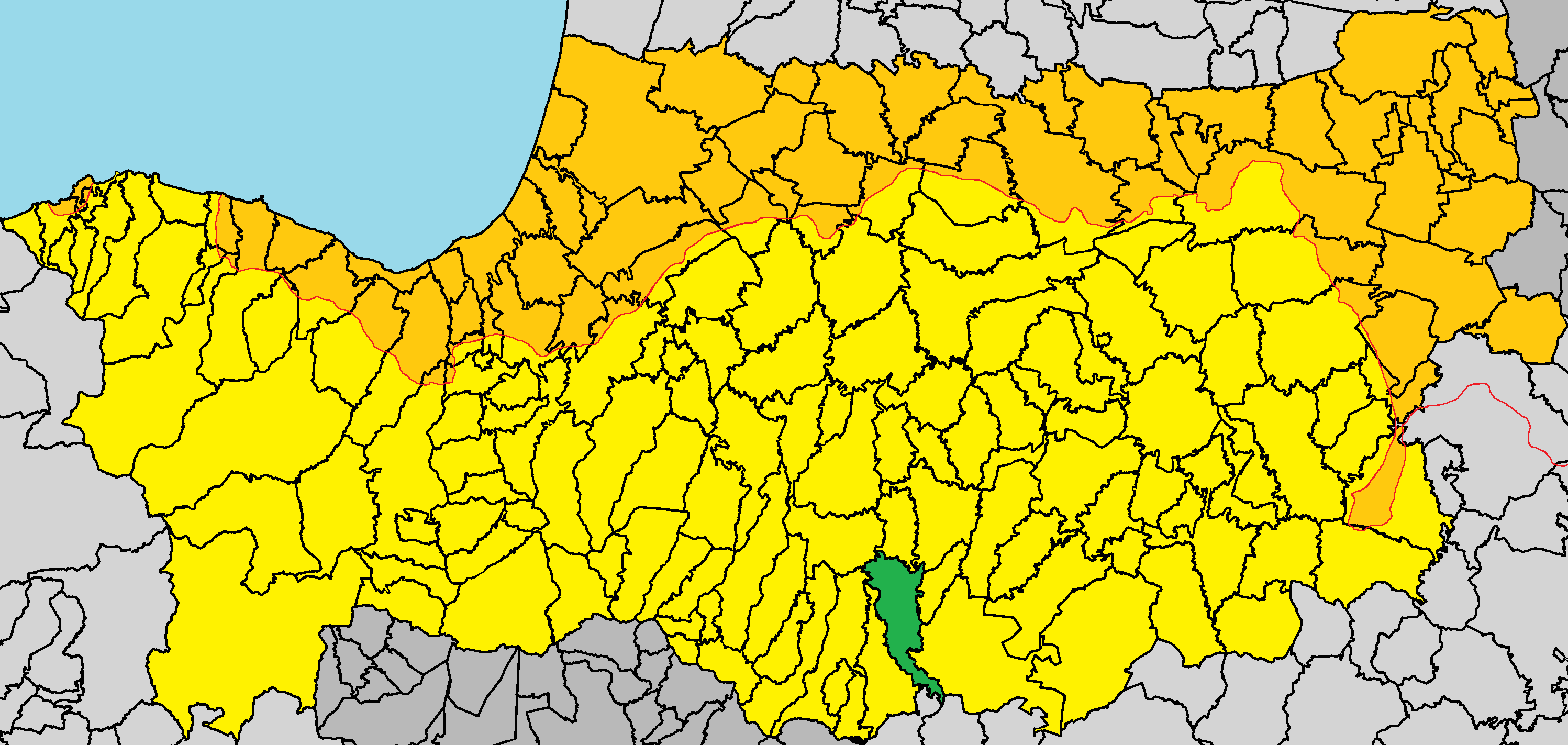 Gourri in Nicosia District.